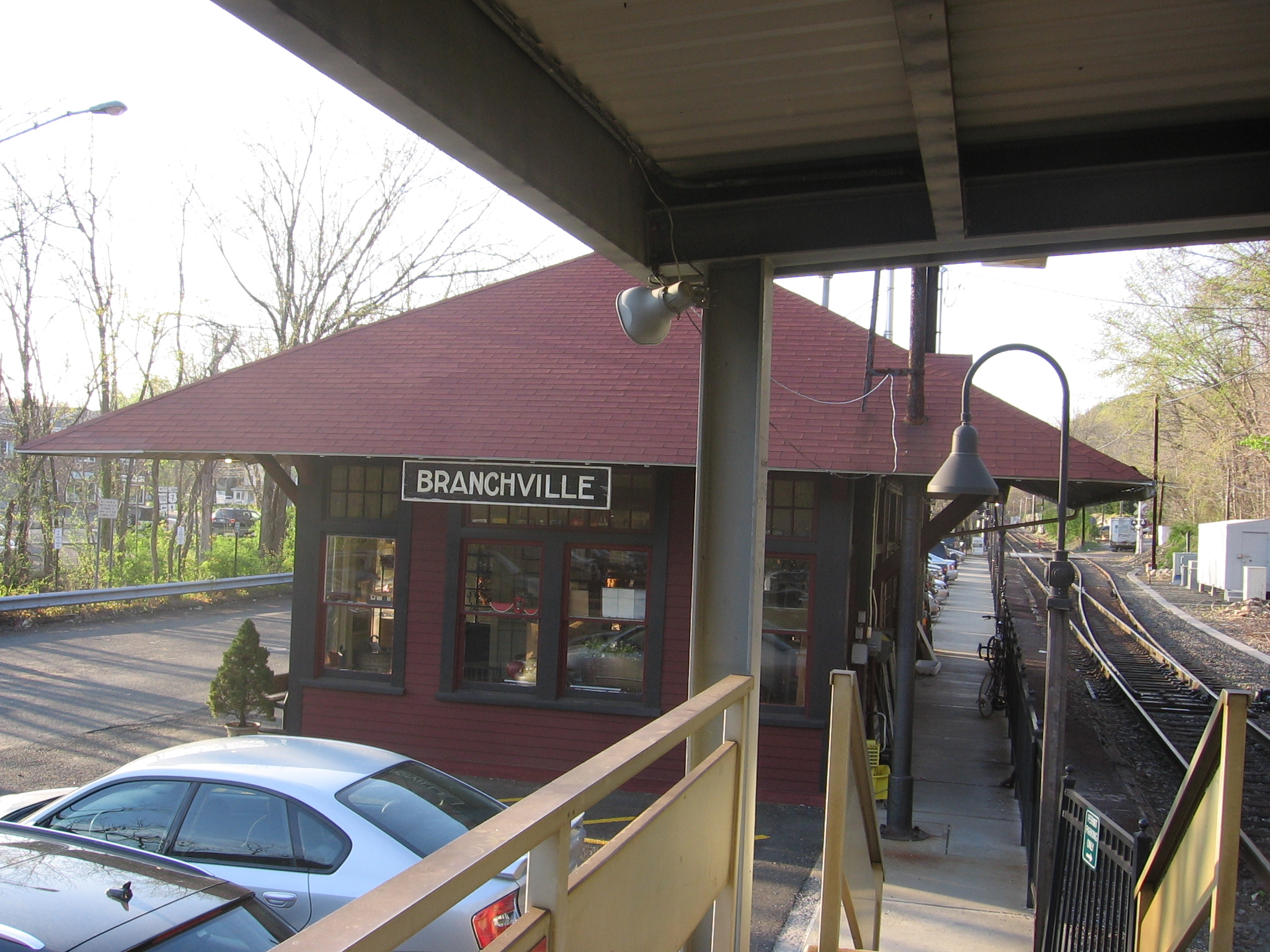 The Branchville Station house as seen from the elevated platform. The switch for the passing loop is visible to the right.